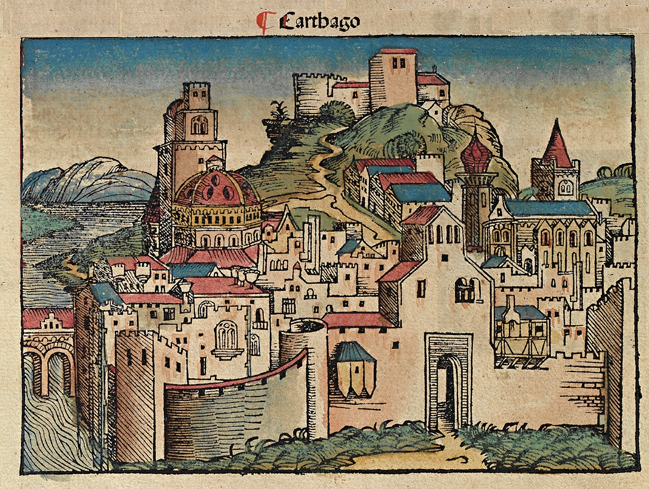 Woodcut from the Nuremberg Chronicle